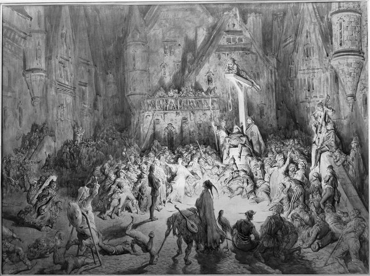 The Court of Miracles. Gustave Doré's illustration of Victor Hugo's novel, Notre Dame de Paris.